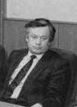 Berlin, Gespräch Modrow mit Künstlern Information added by Wikimedia users.Cut-out of another photograph